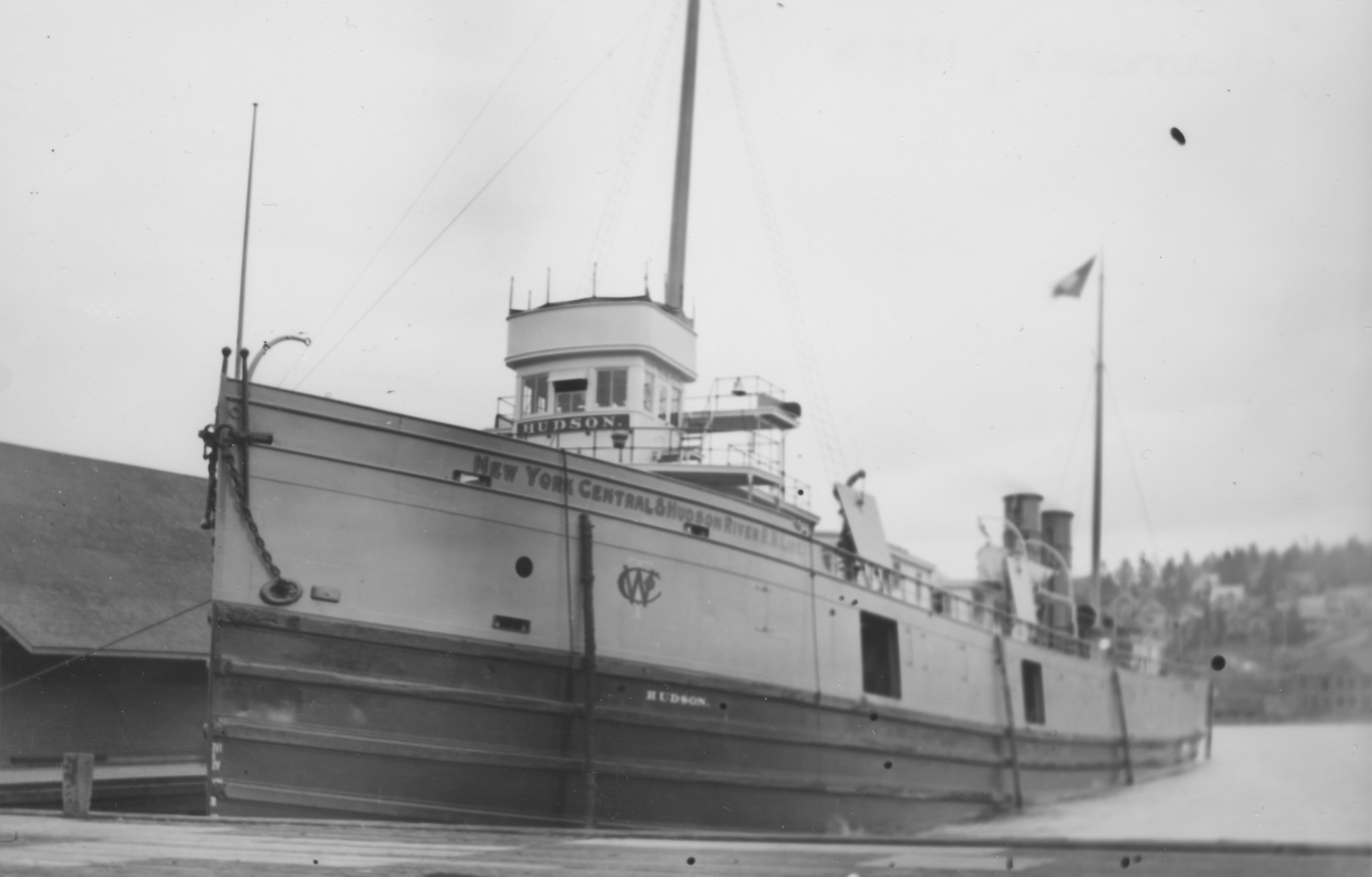 The steamer Hudson before she sank